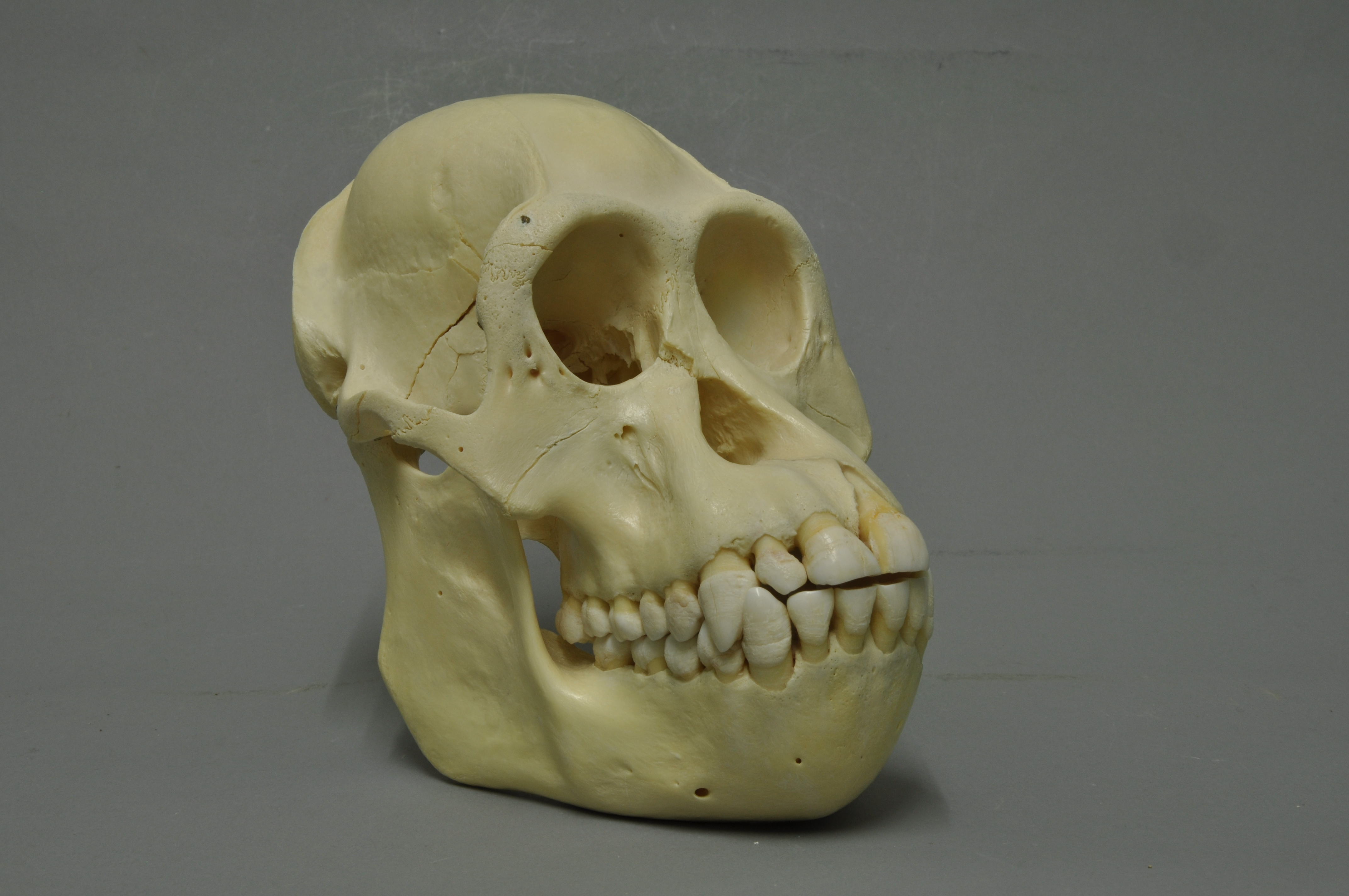 Bornean orangutan Pongo pygmaeus, skull, Coll. Museum Wiesbaden